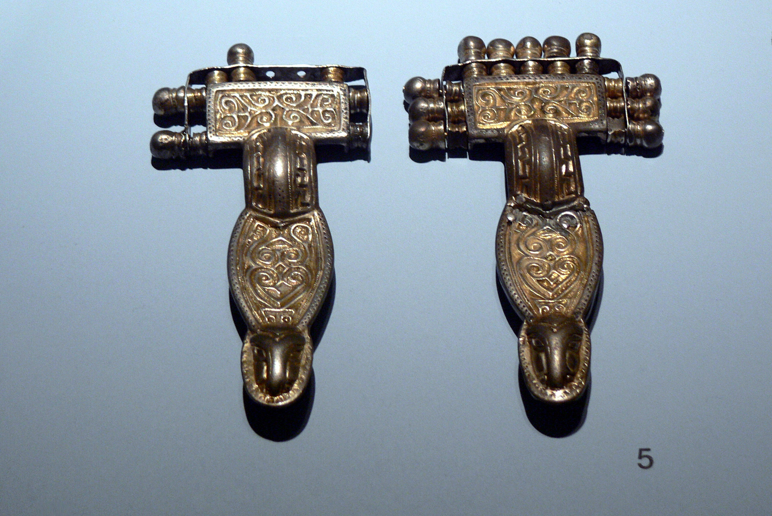 German National Museum (Nuremberg/Germany). Pair of Alamannic bow fibulae, chip carved, gilt silver, 6th century A.D., from Herbrechtingen.